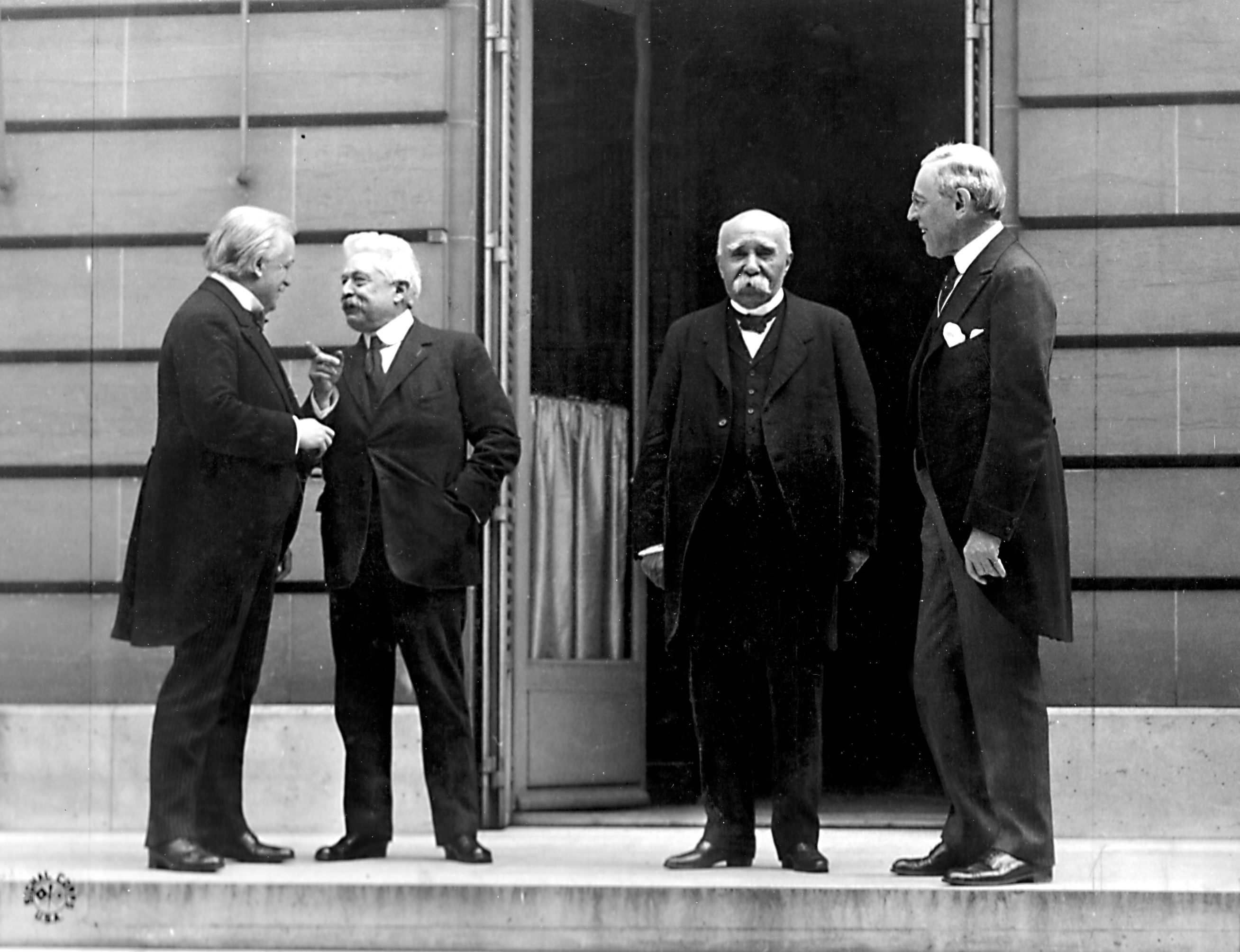 Council of Four at the WWI Paris peace conference, May 27, 1919 (candid photo) (L - R) Prime Minister David Lloyd George (Great Britain), Premier Vittorio Orlando (Italy), Premier Georges Clemenceau (France), President Woodrow Wilson (USA)